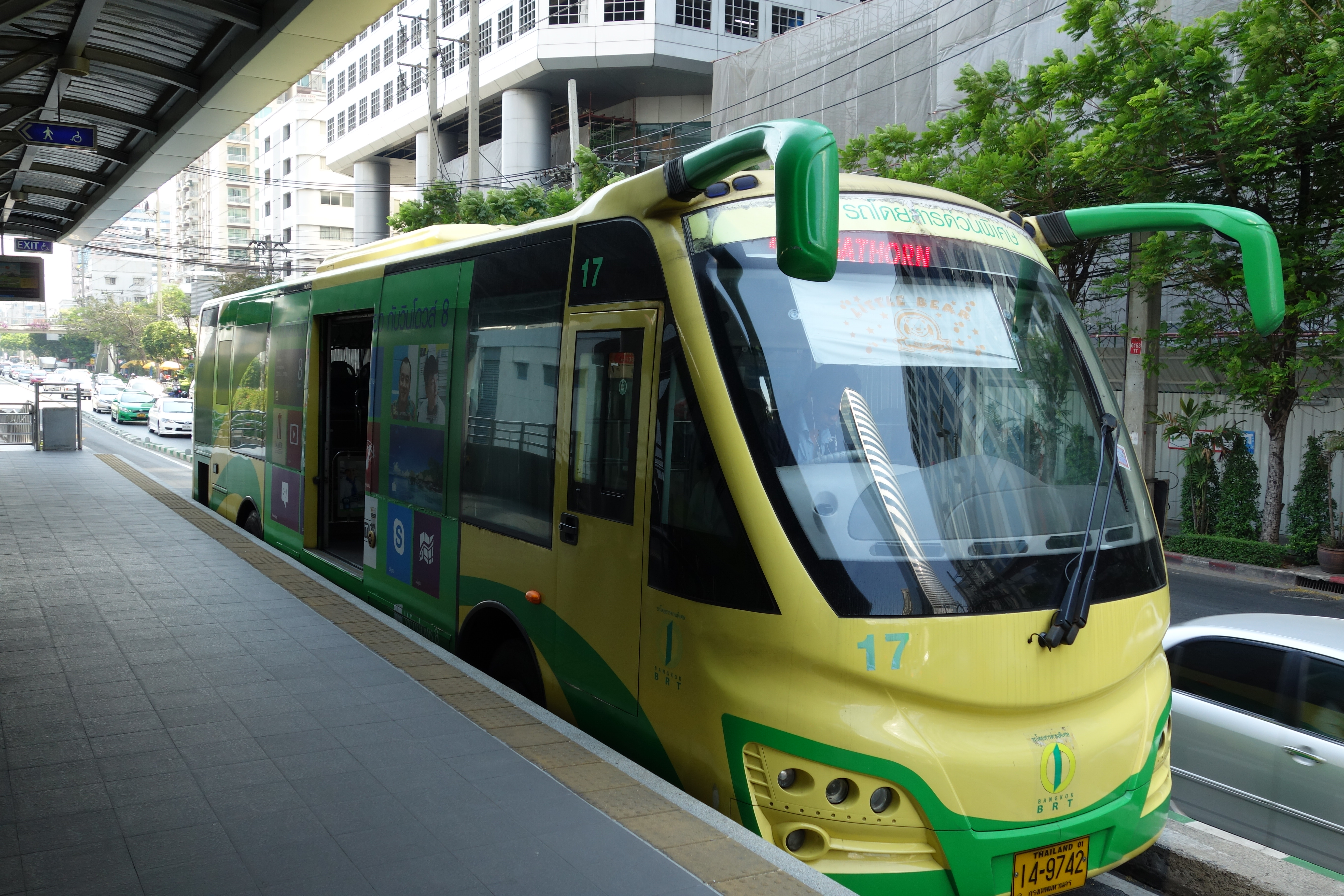 A BRT bus at its terminus Sathorn.